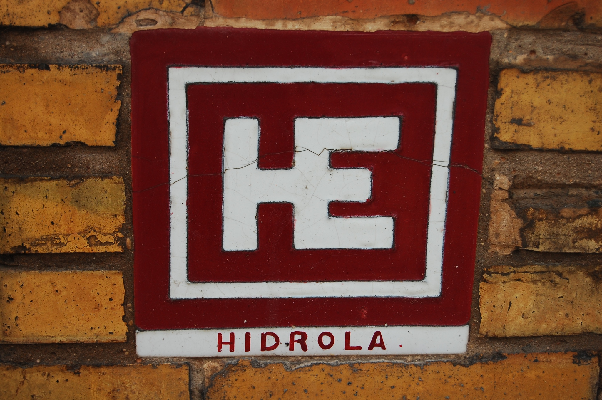 logo of the Hidroelectrica Espanola company on a brick wall